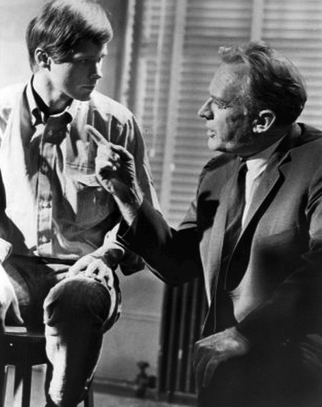 Photo of Brandon deWilde (left) and Arthur Kennedy in a scene from "The Confession" presented on the television program Stage 67.